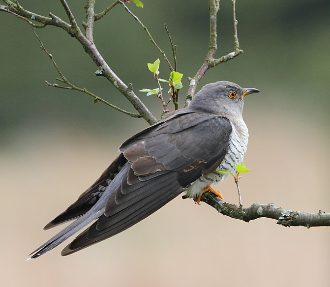 Common CuckooNorsk bokmål: Gjøk